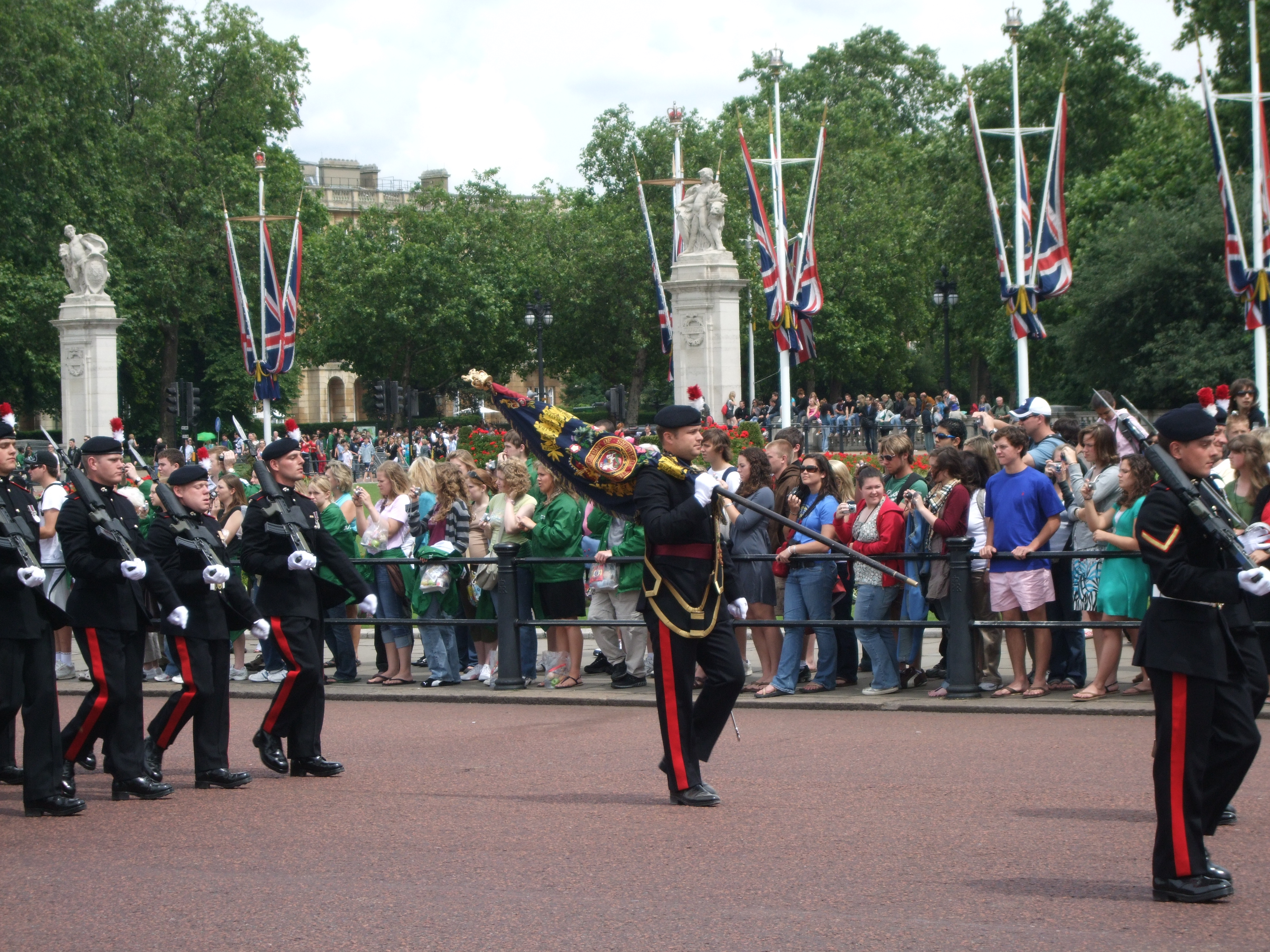 Royal Regiment of Fusiliers performing public duties